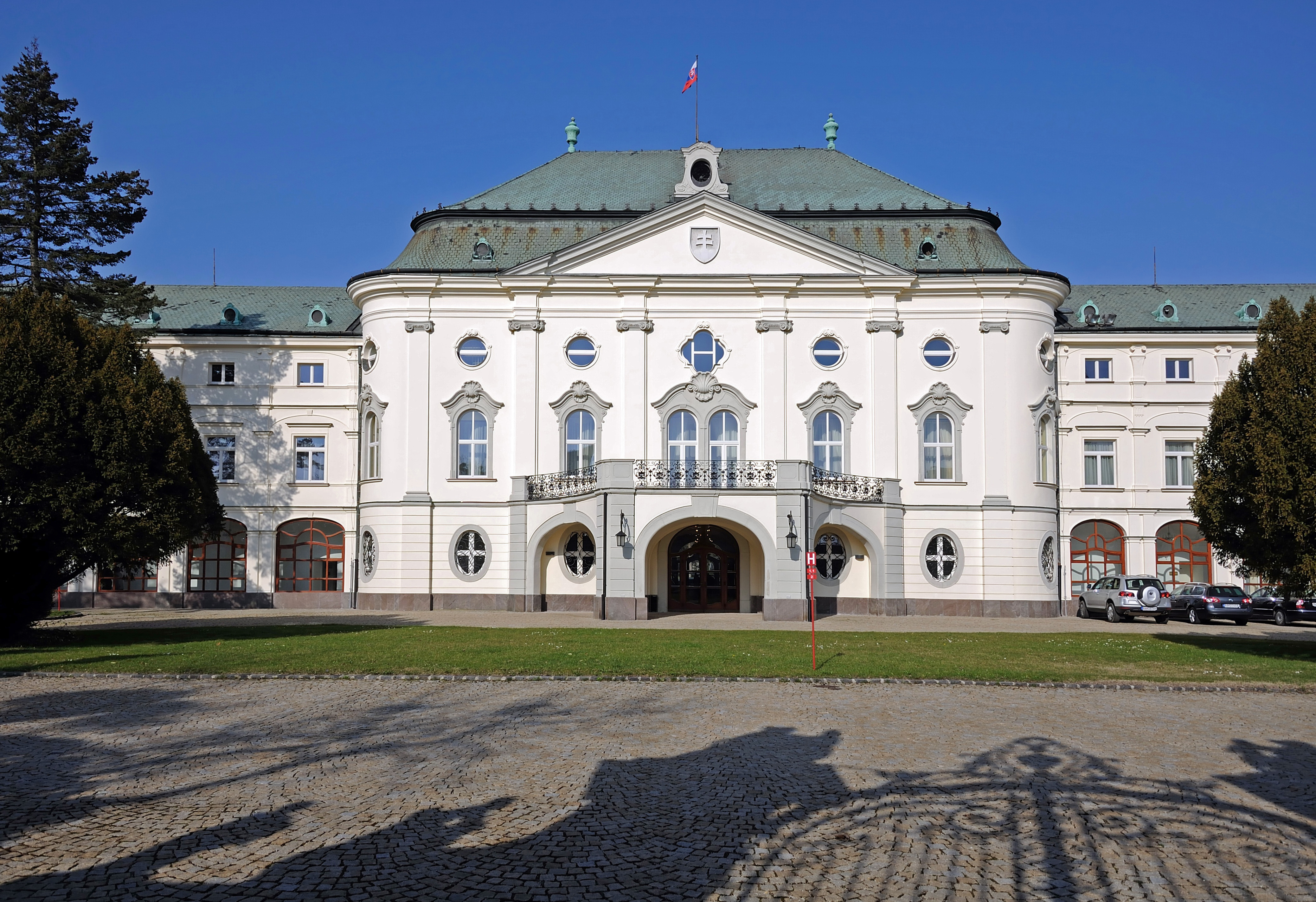 This medium shows the protected monument with the number 101-291/1 in the Slovak Republic.